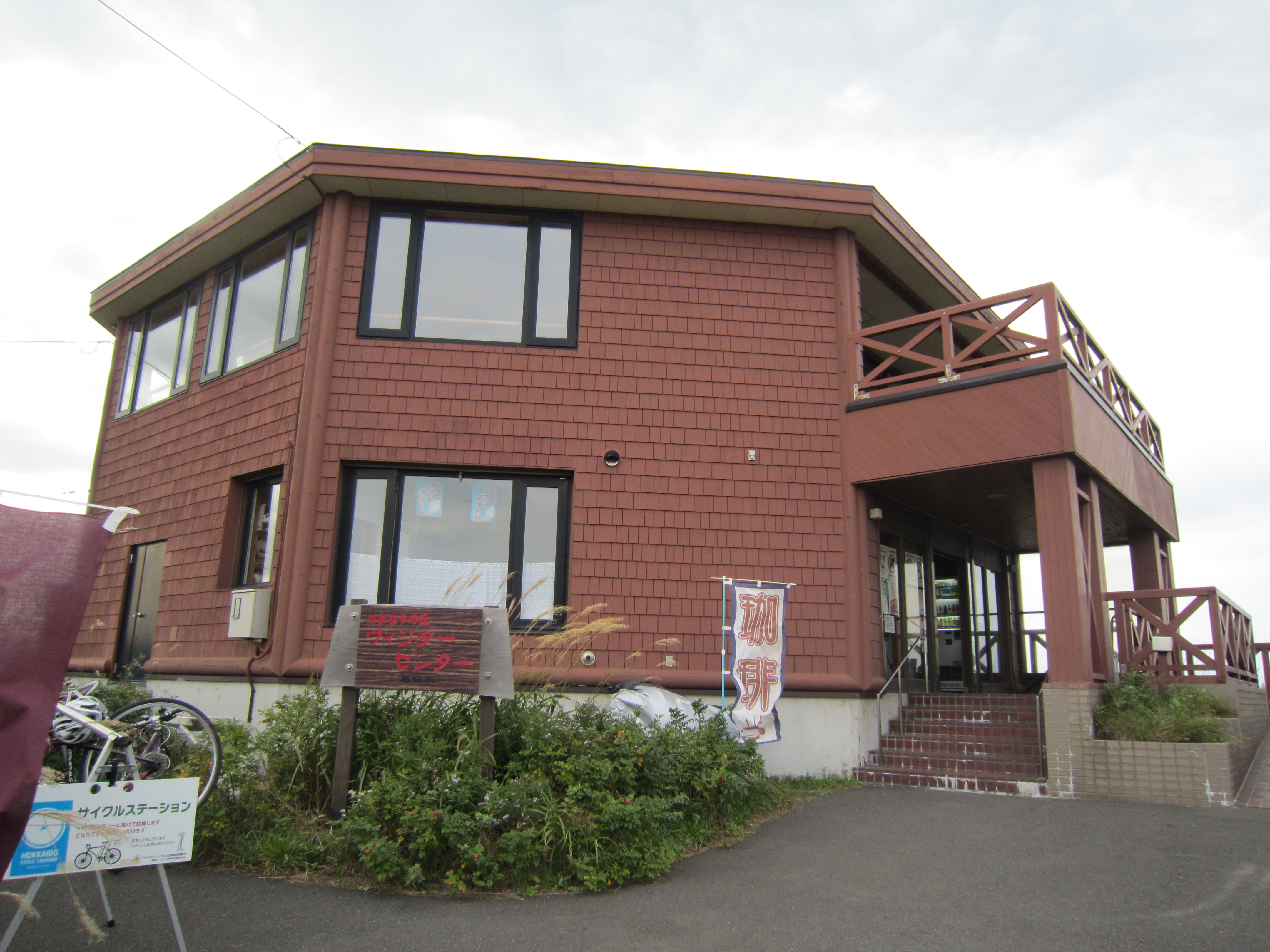 Hamanasu-no-Oka Park Visitor Center